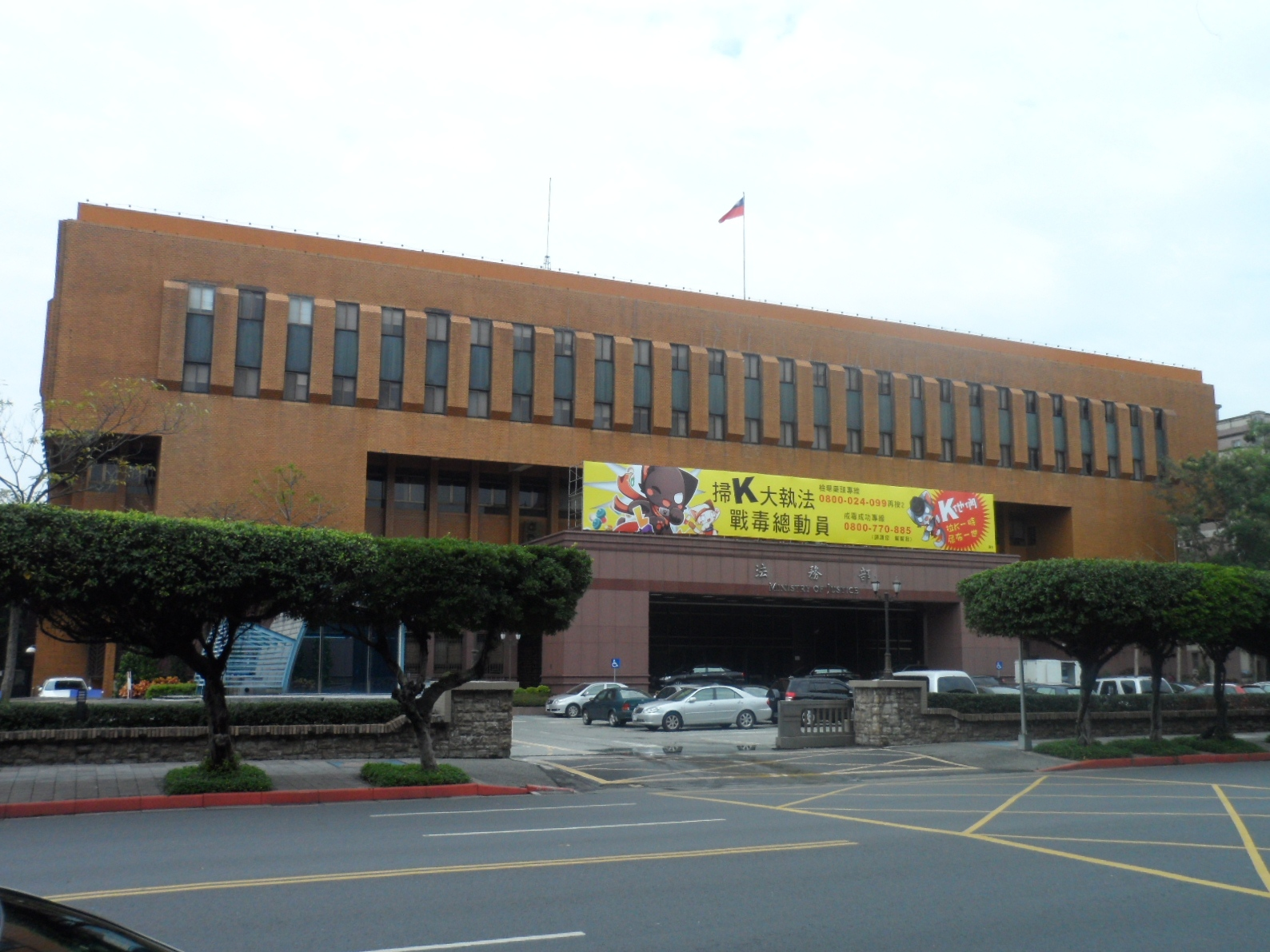 Ministry of Justice, Zhongzheng District, Taipei City, Republic of China